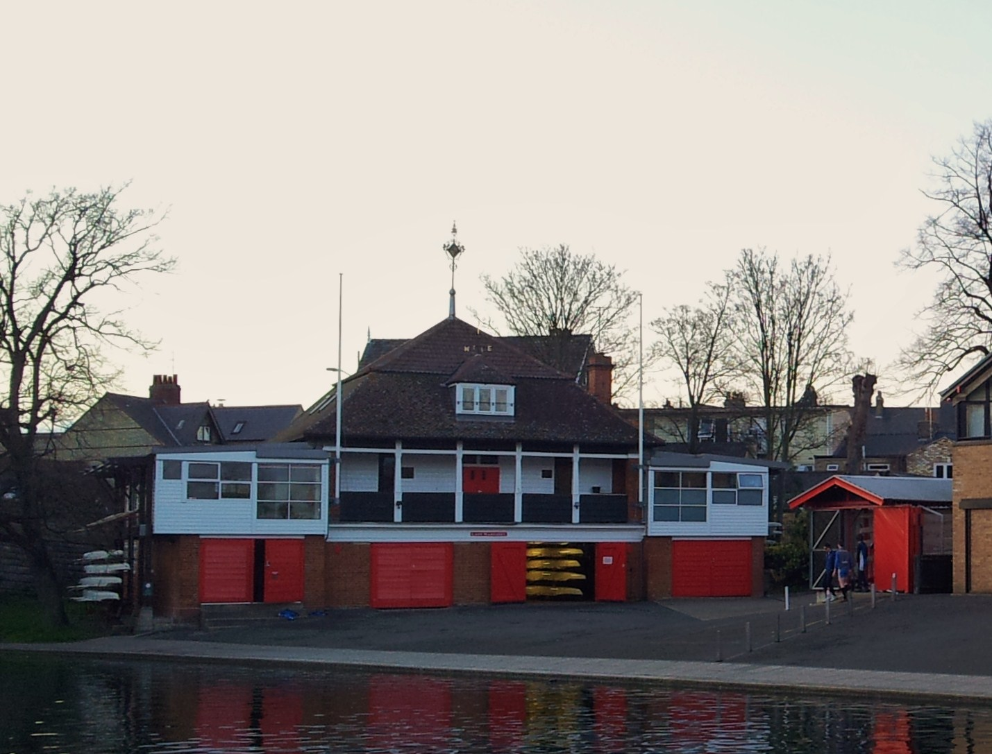 Boathouse of St John's College (Lady Margaret Boat Club)